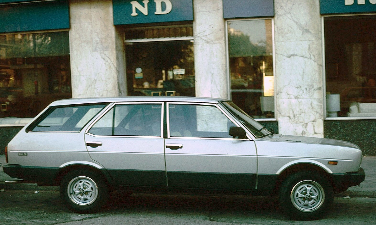 Seat 131 Estate: badged as a Fiat for export markets